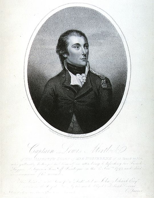 engraving, stipple; Height: 268mm; Width: 189mm